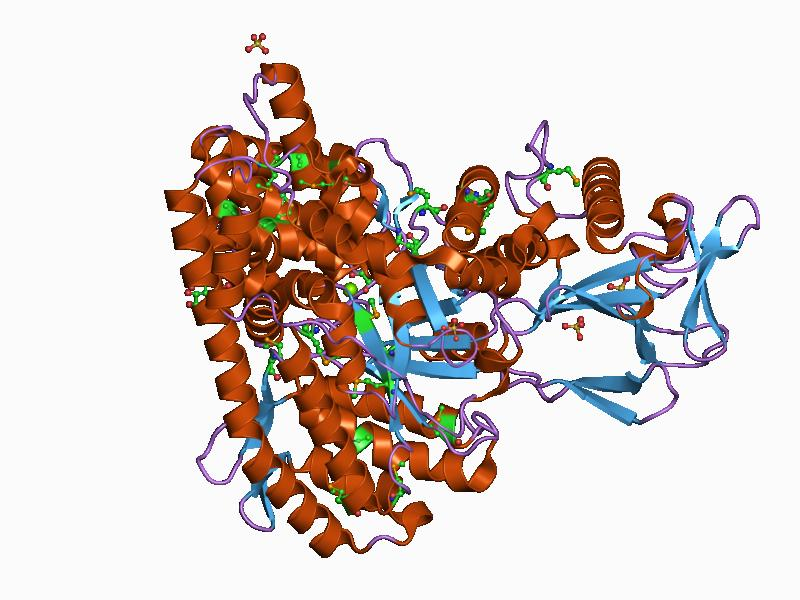 Cartoon representation of the molecular structure of protein registered with 1d8c code.